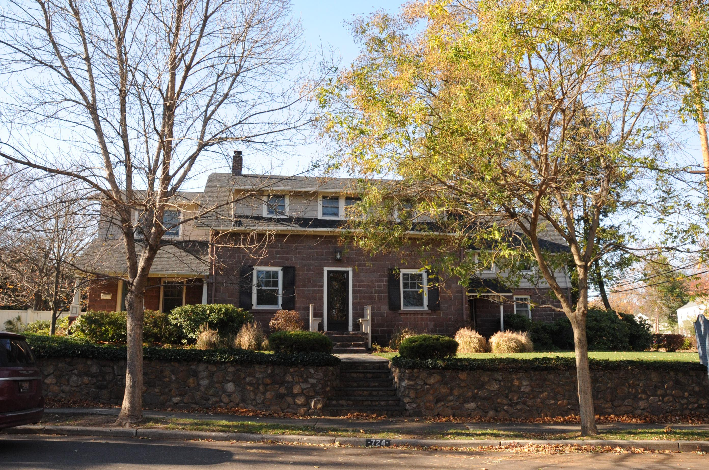 ALSO KNOWN AS HENDRICK HOPPER HOMESTEAD ACCORDING TO BLUE SIGN IN FRONT OF THE HOUSE ON THE EXTREME RIGHT; ONE WING WAS BUILT IN 1780 AND THE CENTER WING IN THE EARLY 1800’S BY HIS SON.